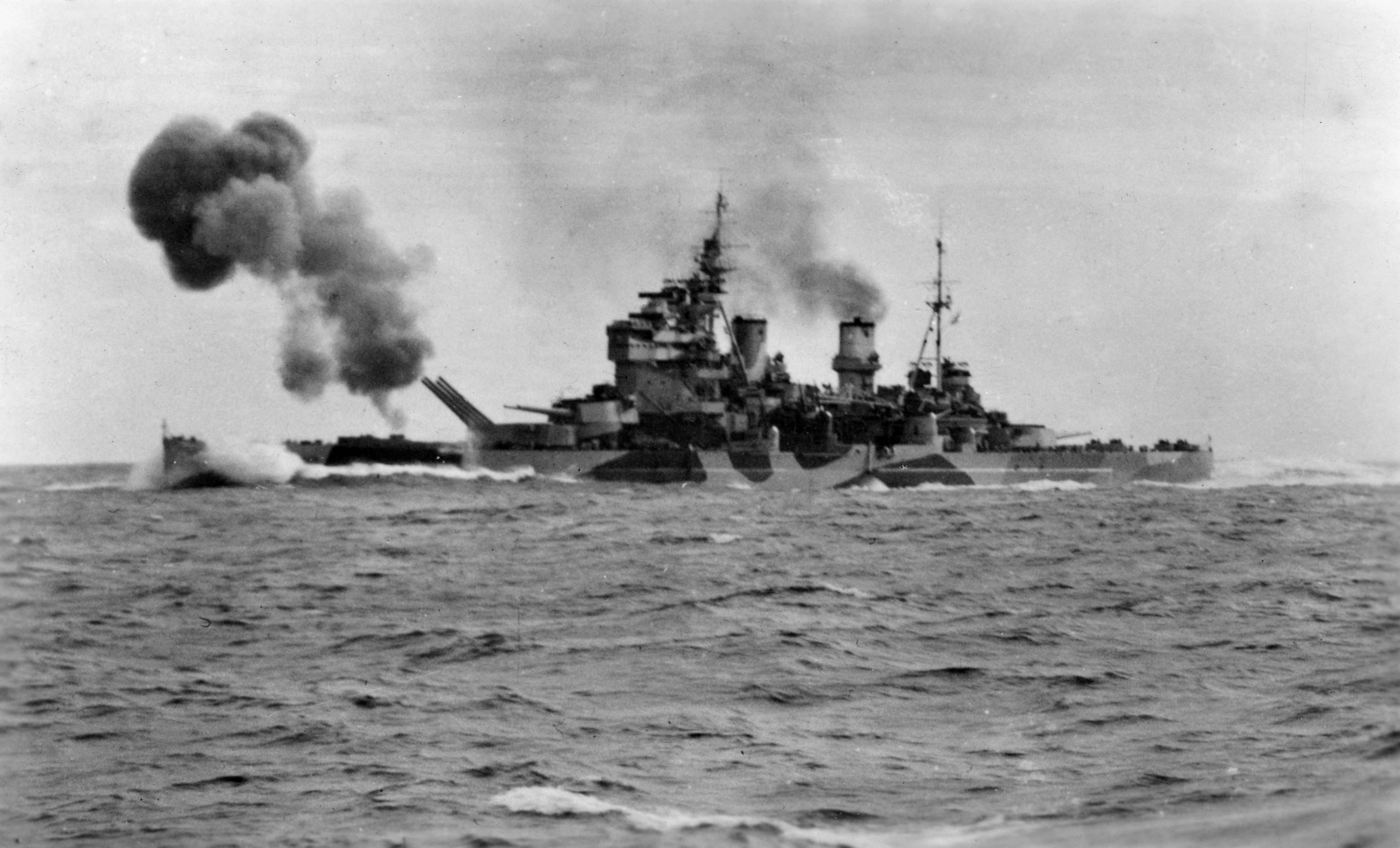 The Royal Navy battleship HMS Anson (79) firing her guns during passing out trials in the North Sea.